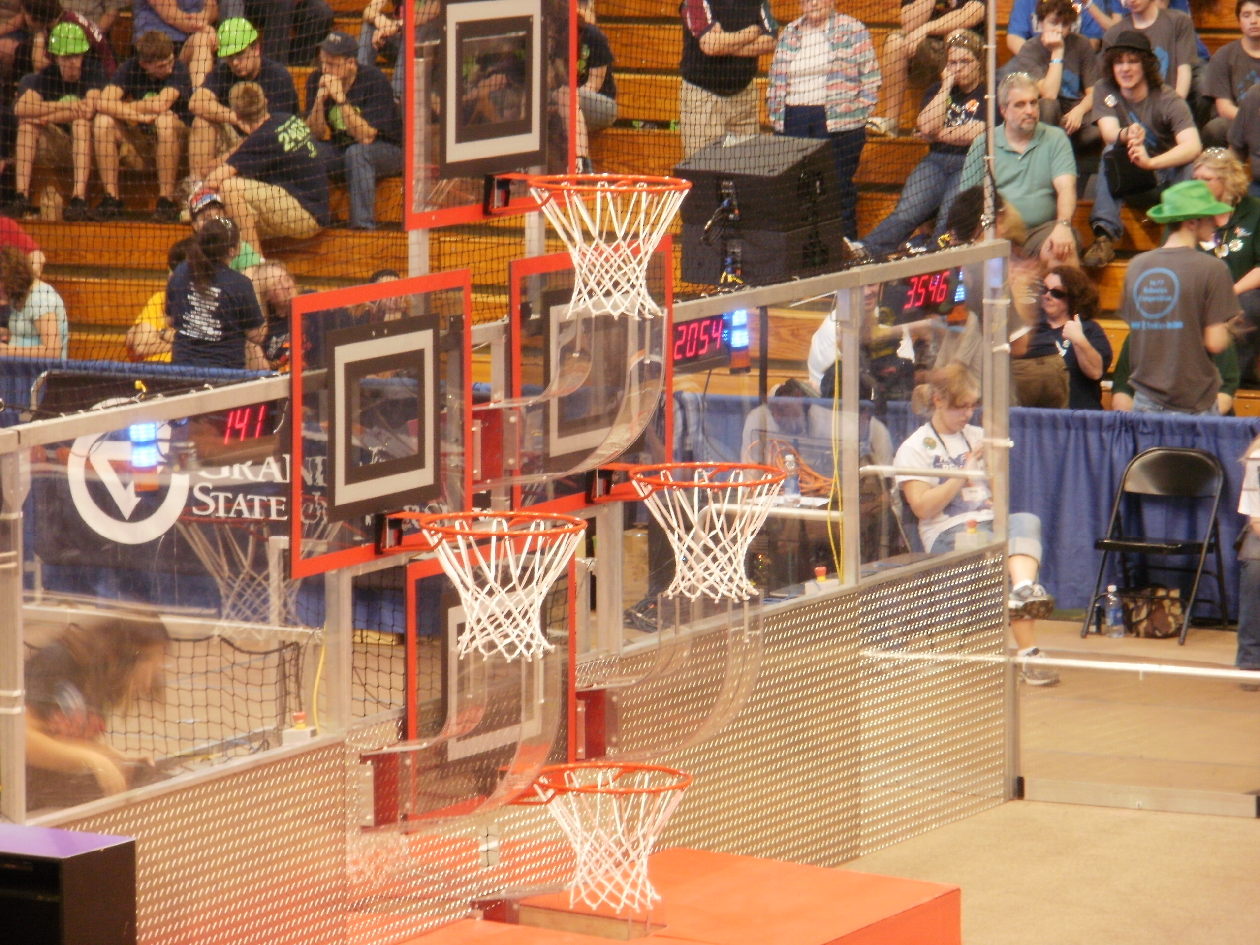 2012 FIRST Robotics Competition game Rebound Rumble showing the basketball hoops at one end of the field.